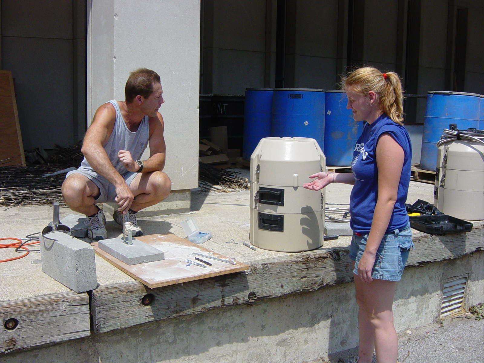 Autosamplers being prepared as part of a wetland research project on water quality.